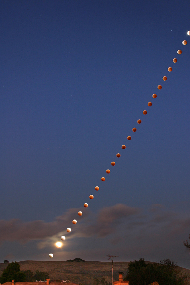 Lunar eclipse time lapse composite photo taken over Hayward, California.